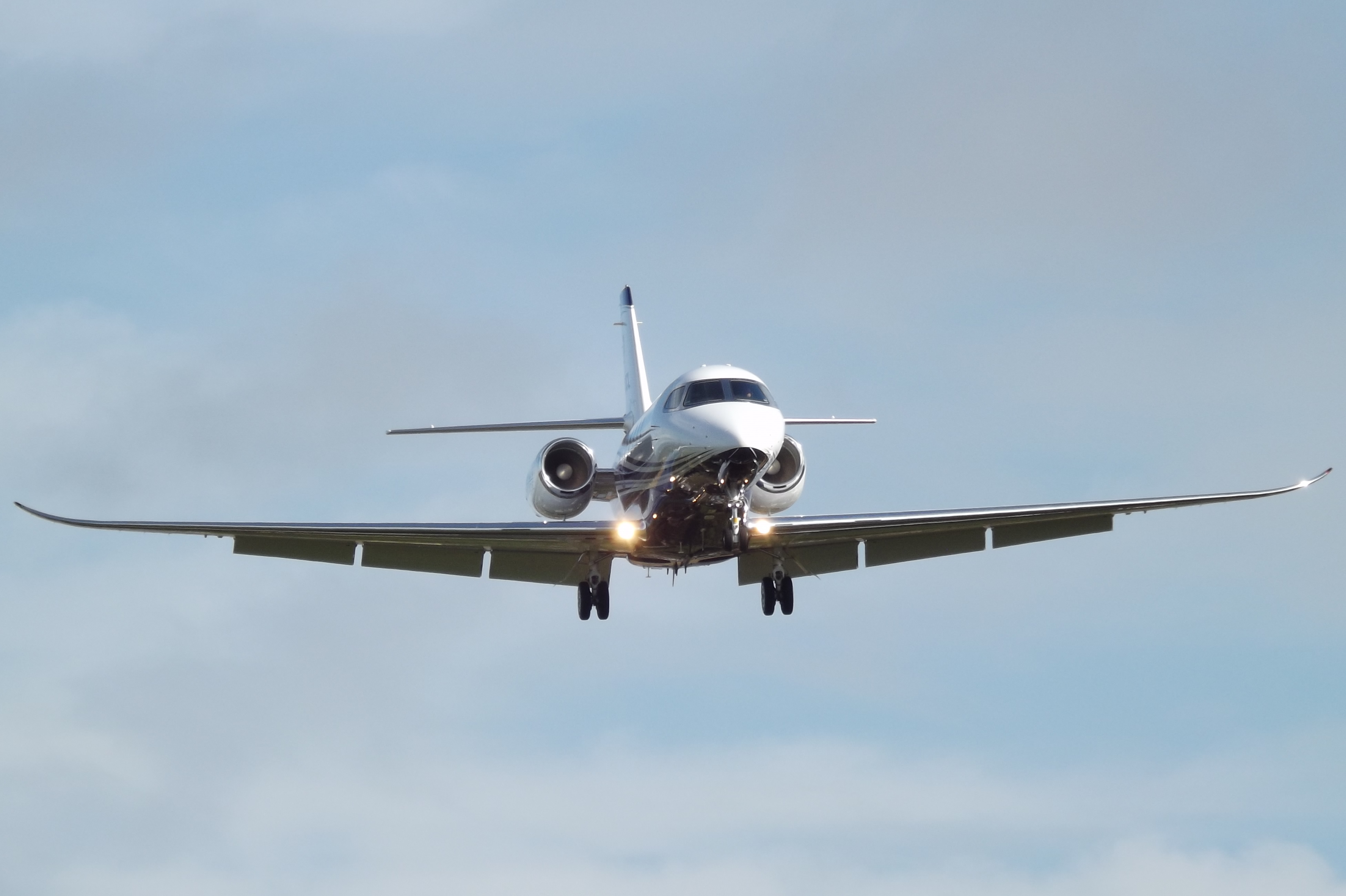 At Gloucestershire Airport.